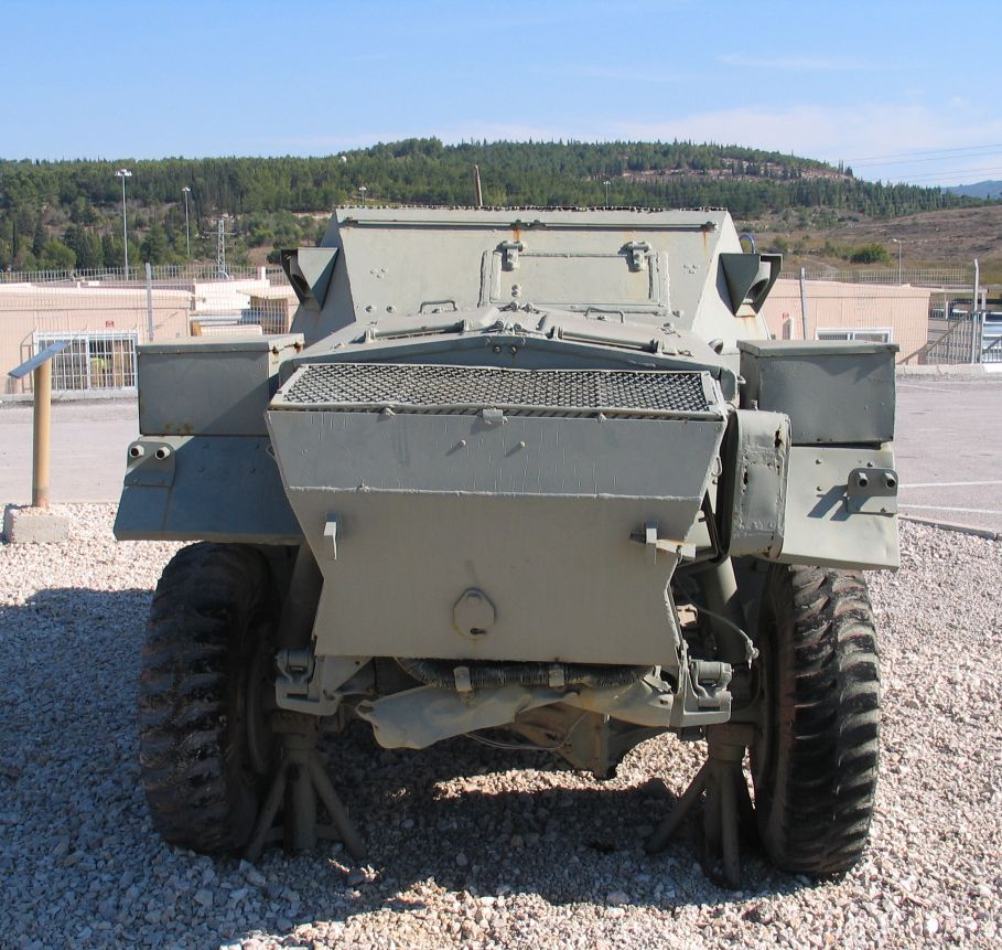 Description: Ford Lynx scout car in Yad la-Shiryon Museum, Israel. 2005. Source: Photo by me, User:Bukvoed.